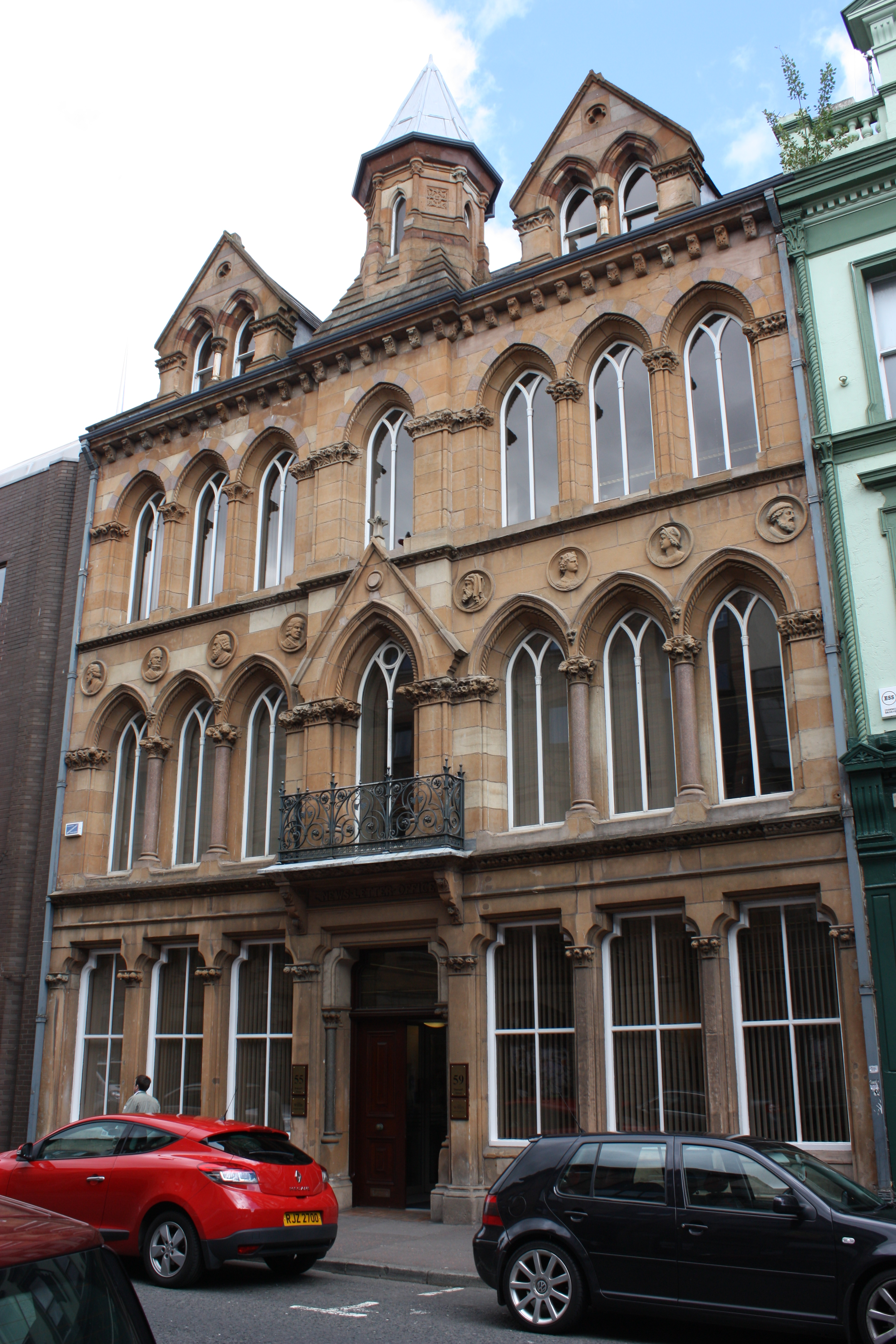 Former News Letter office, Donegall Street, Belfast, Northern Ireland, July 2010